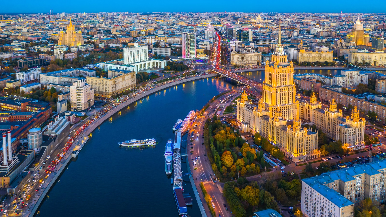 Panoramic view of Moscow